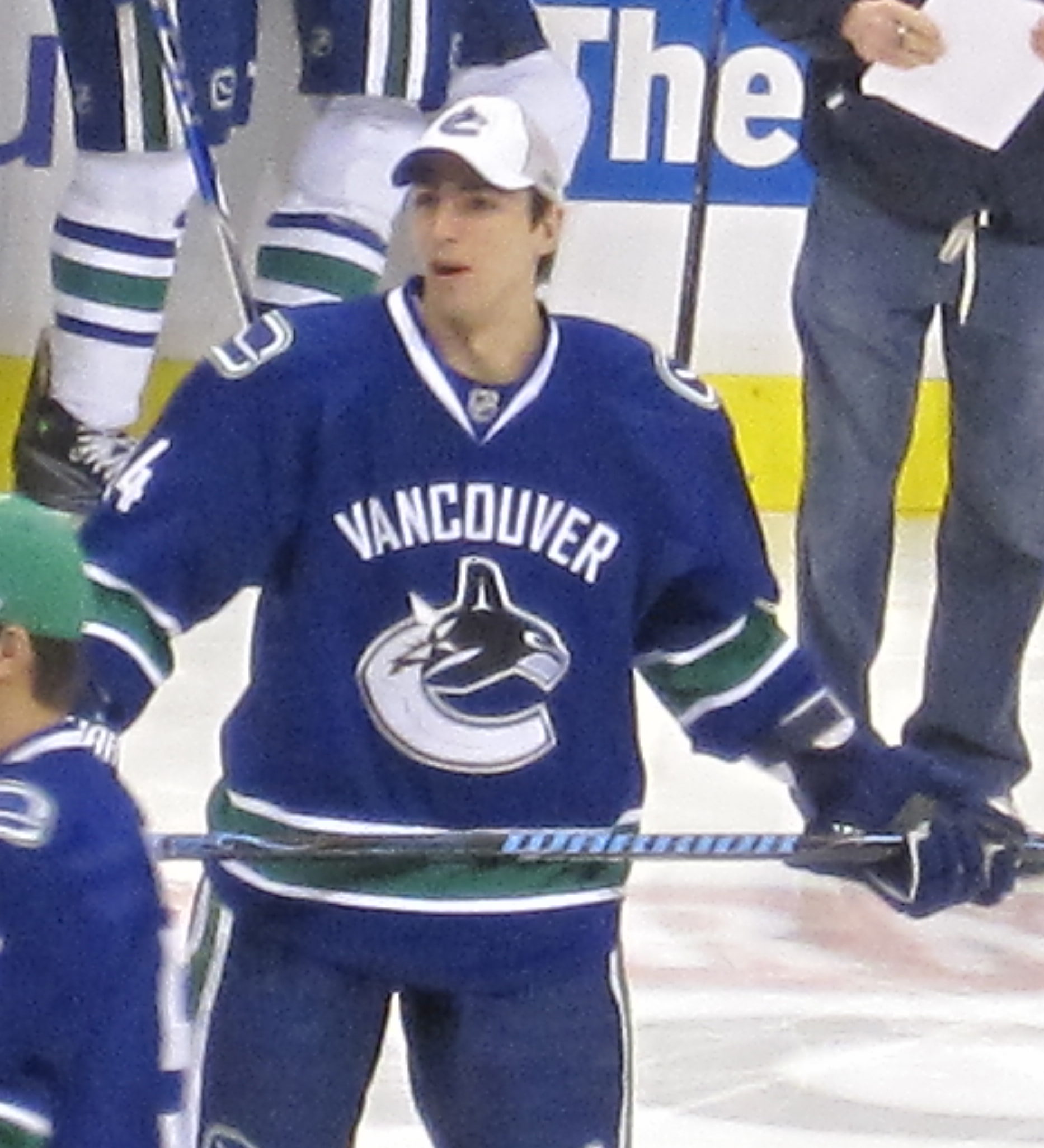 A picture of Vancouver Canucks forward, Alex Burrows, taken at the Super Skills 2009.